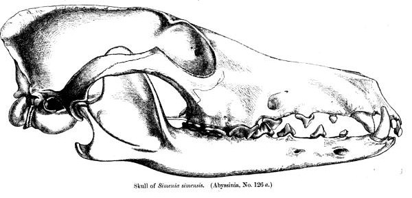 An illustration of an ethiopian wolf skull